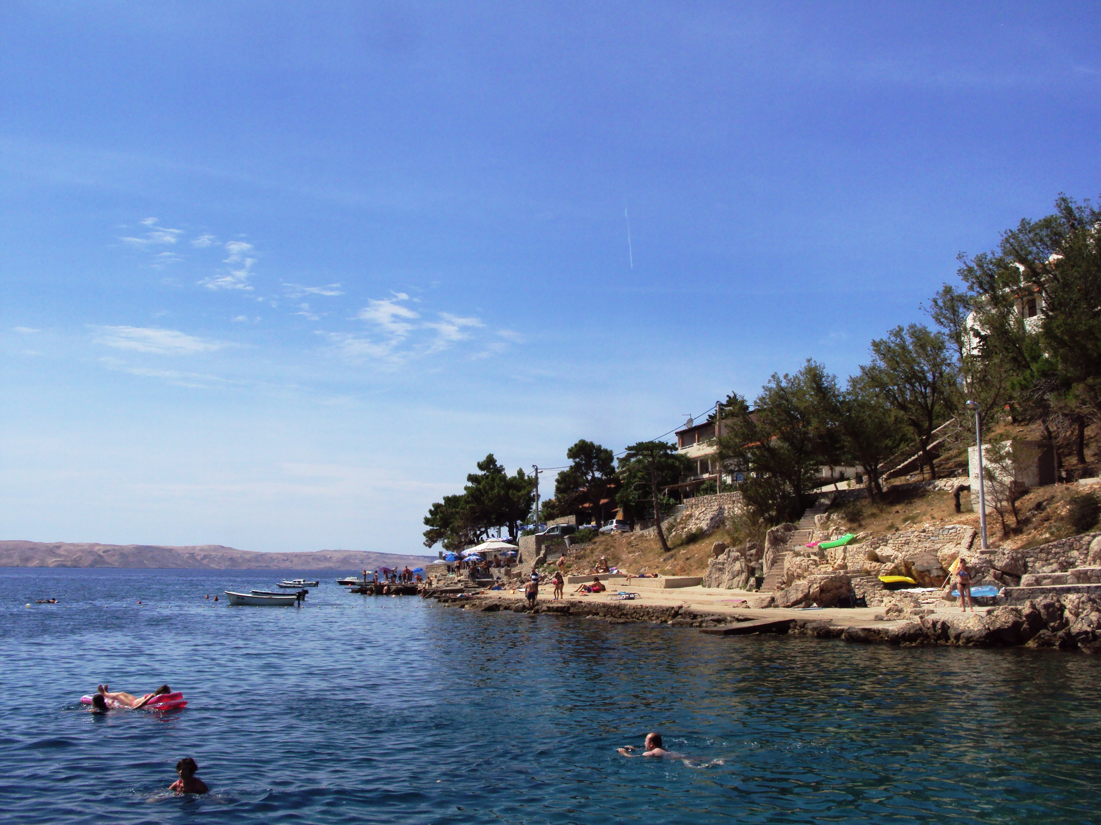 A beach in town of Karlobag, Croatia